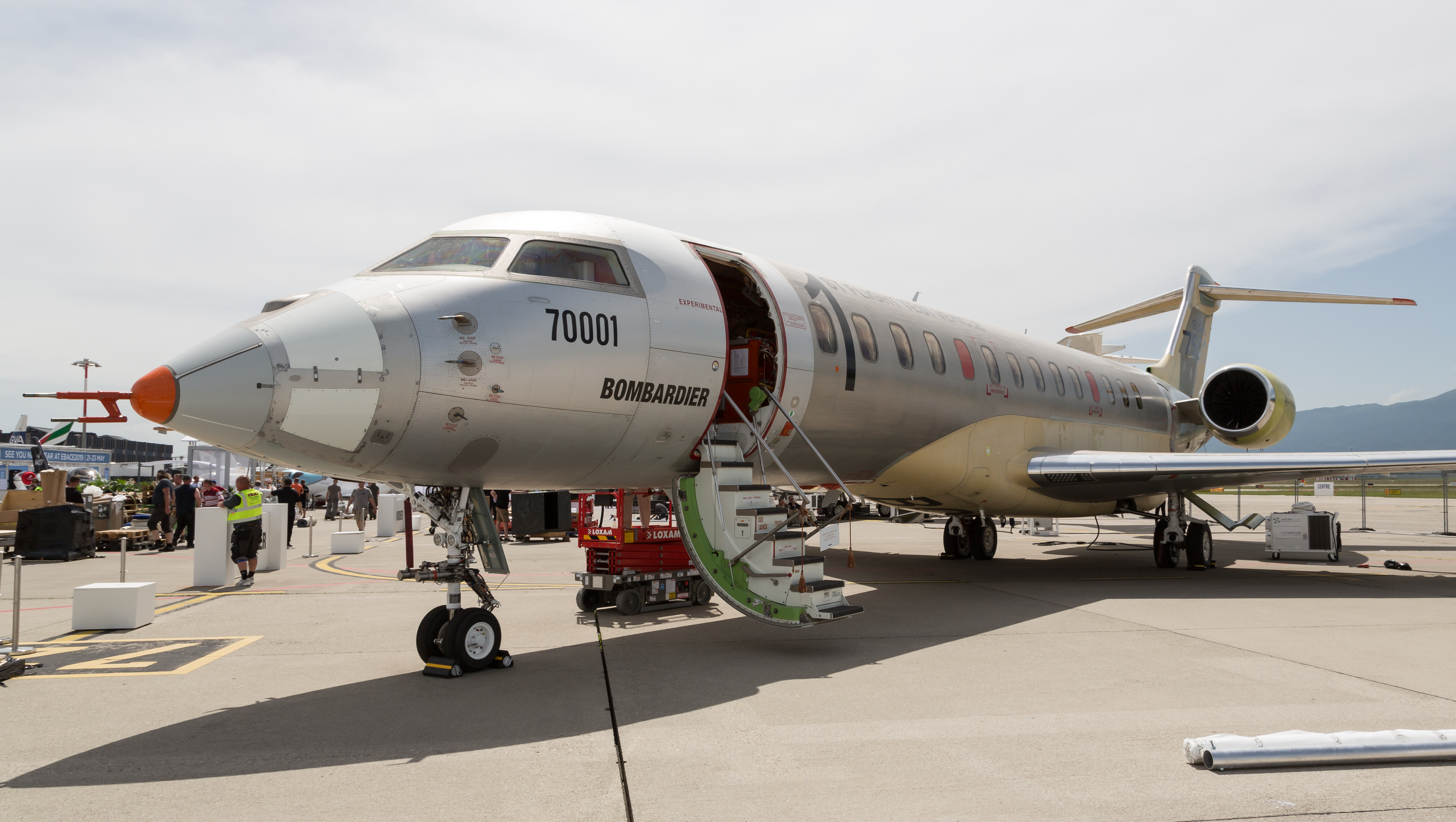 Bombardier Global 7500 prototype on static display, EBACE 2018